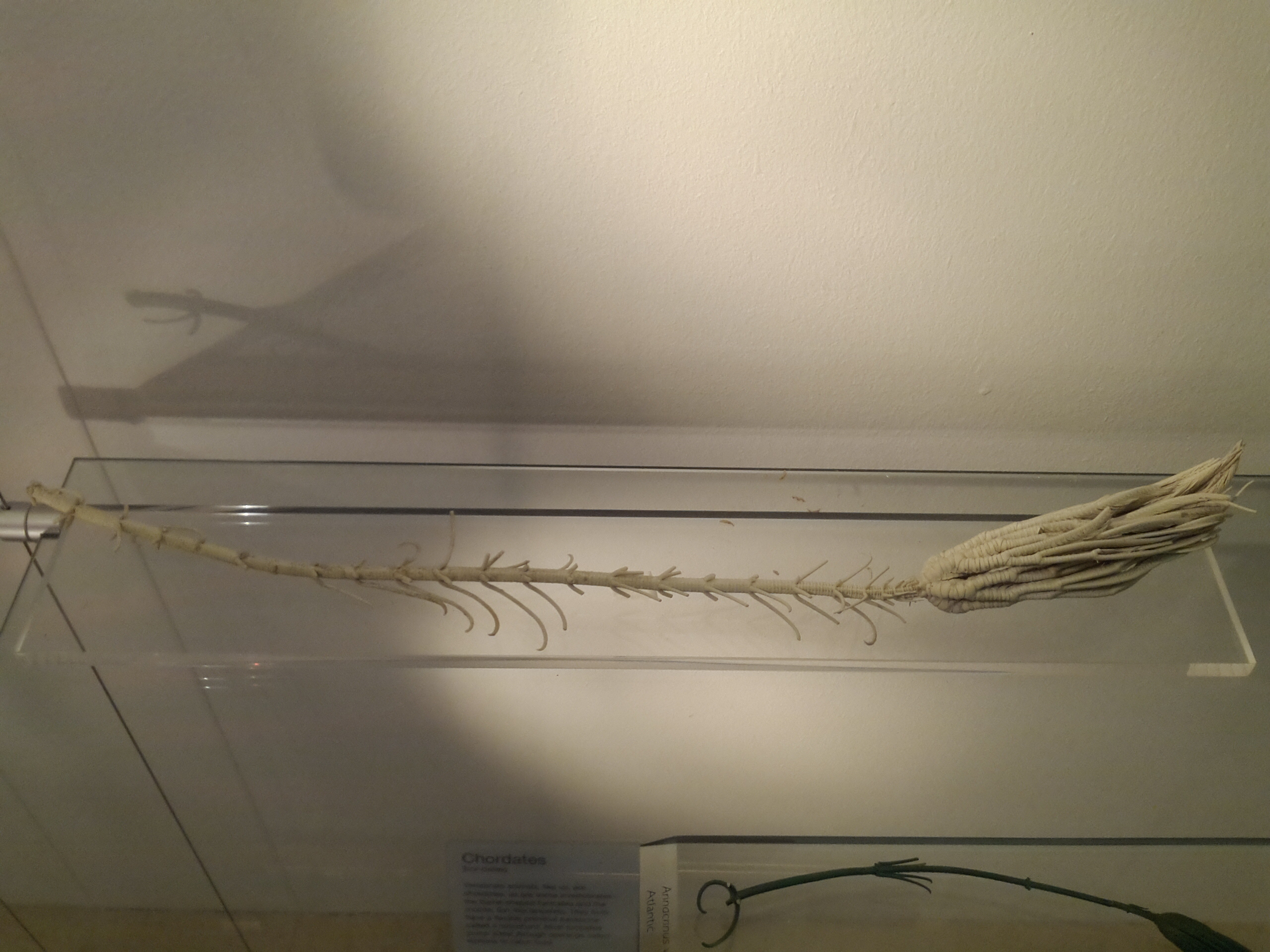 From the Marine Invertebrates Gallery at the Natural History Museum, London.